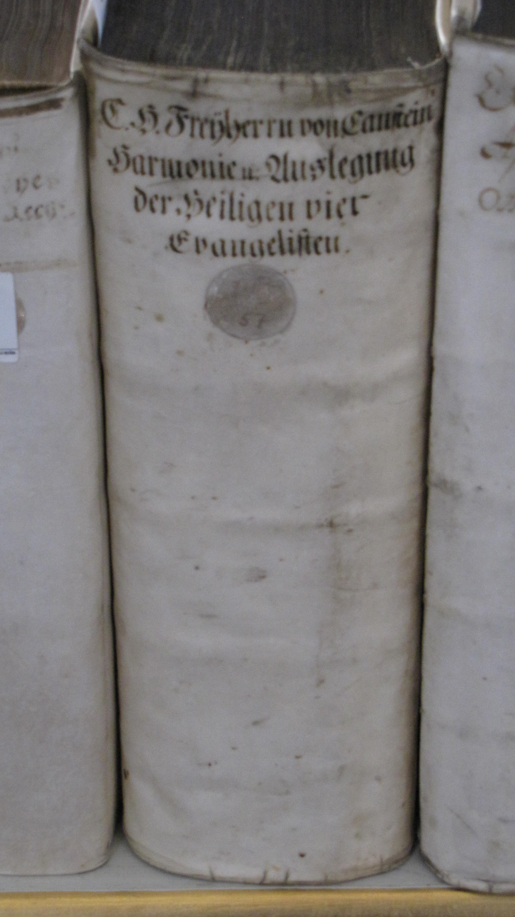 Interior of Anna-Amalia-Bibliothek in Weimar